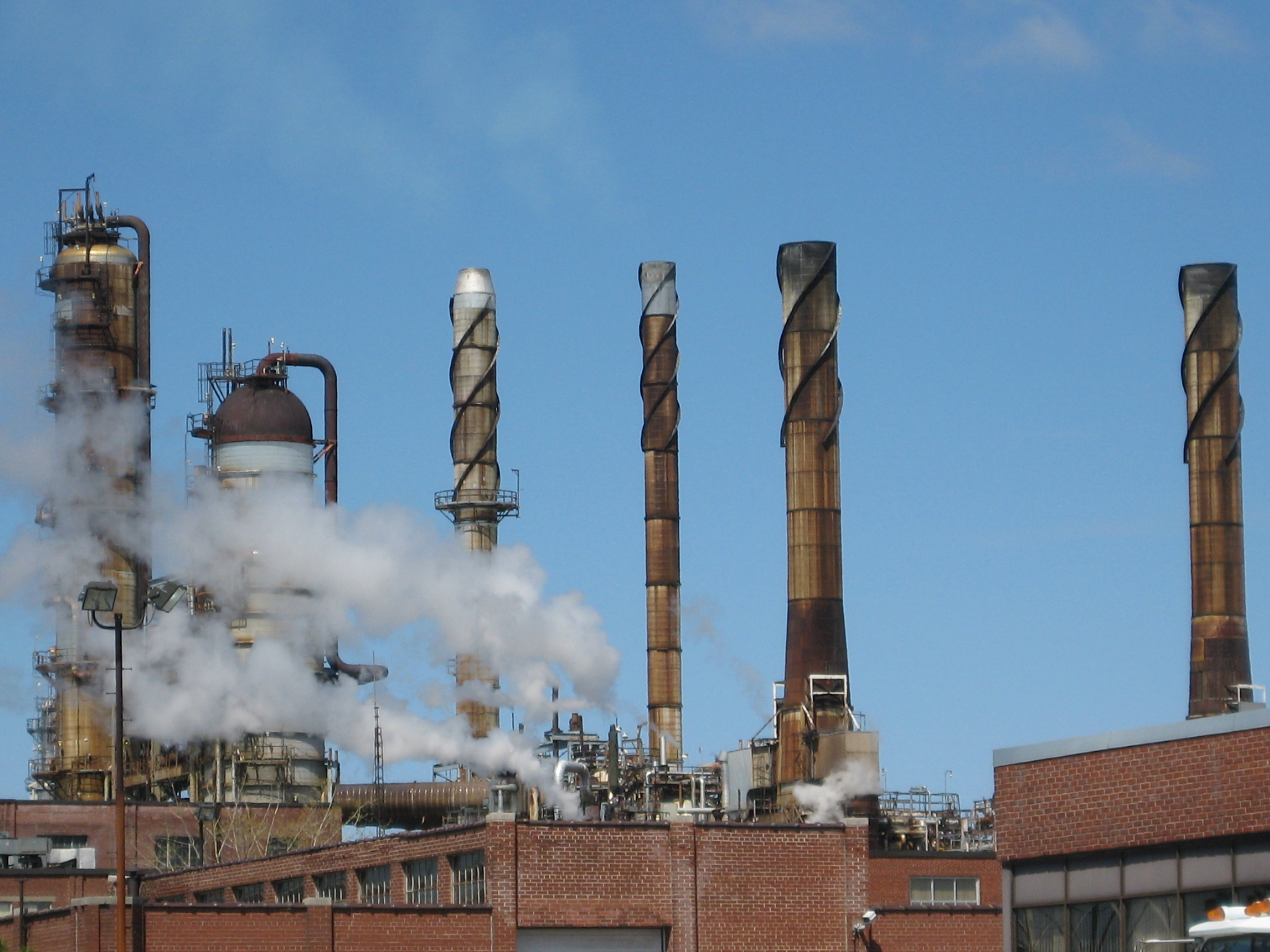 Unité de distillation de pétrole brut à la raffinerie de pétrole Shell à Montréal.